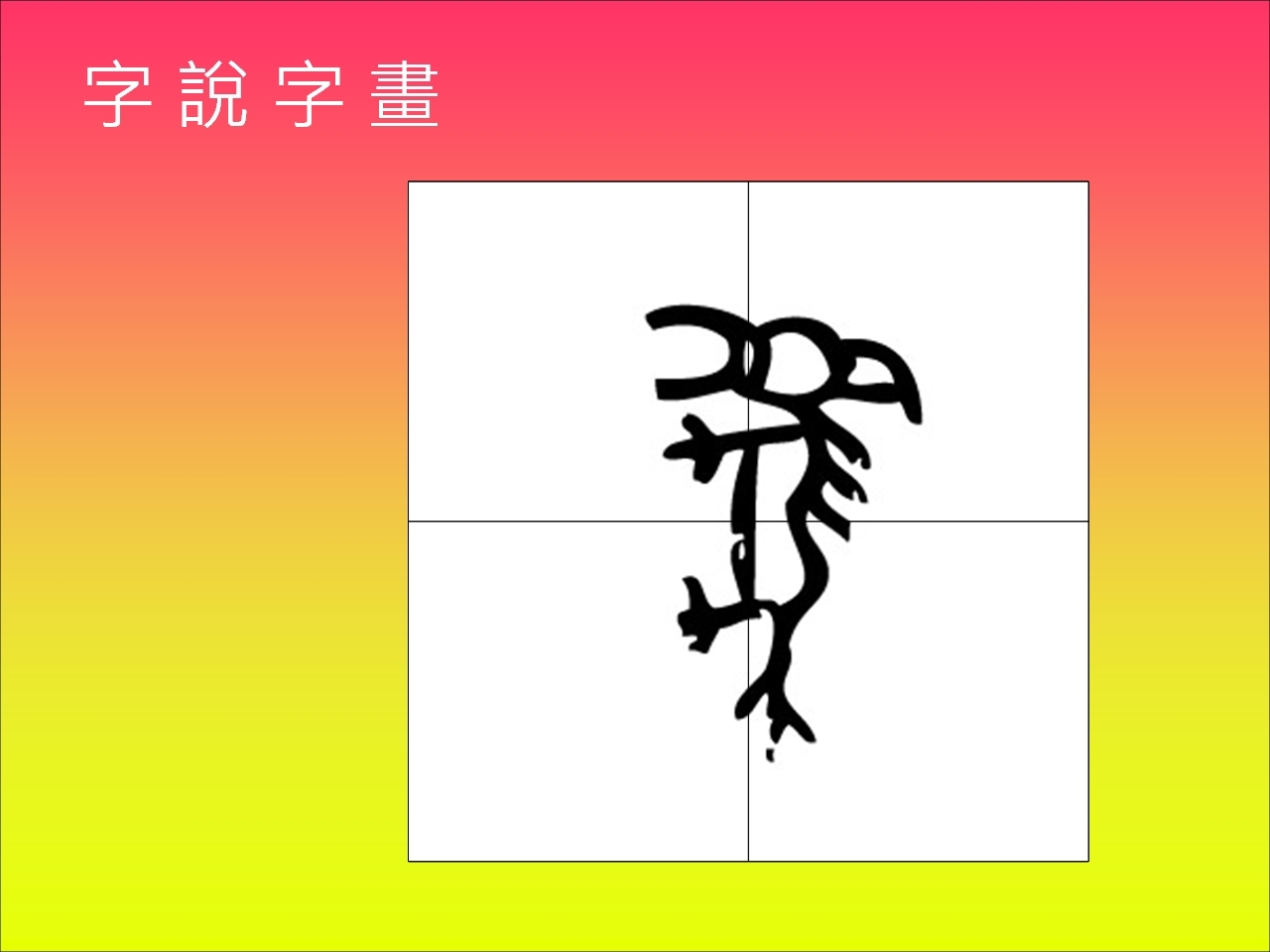 The screenshot simulation of the game show The Wise Man of the Chinese Characters (Chinese: 全民字多星).